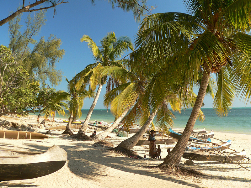 Beach in Madagascar with pirogues and palm trees